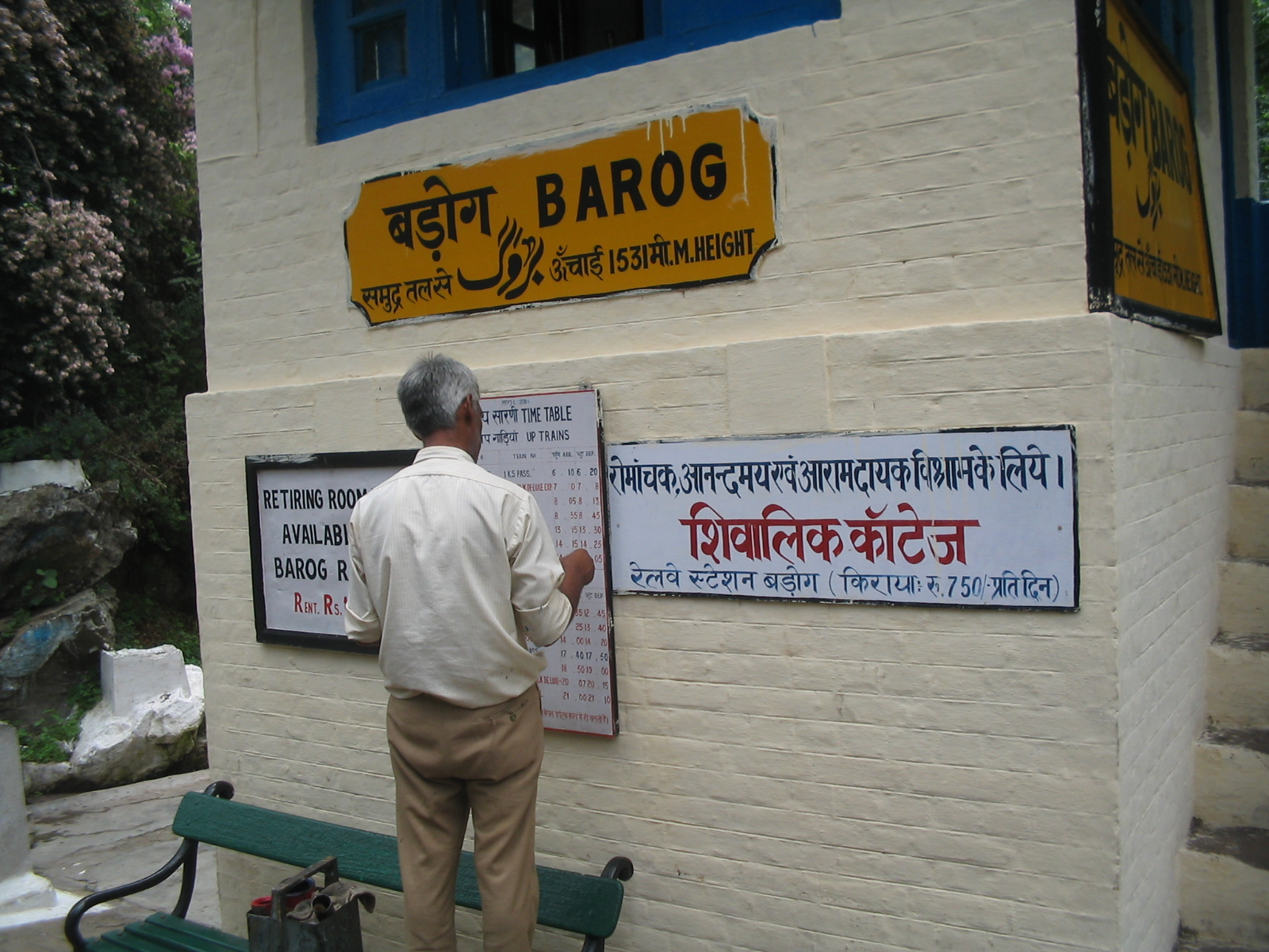 Repainting of the notice-boards, on the Barog Railway Station